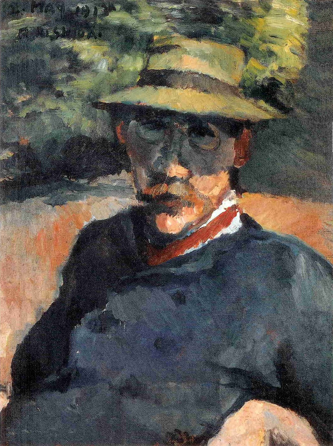 Kishida Ryûsei: Painting Bernard Leach